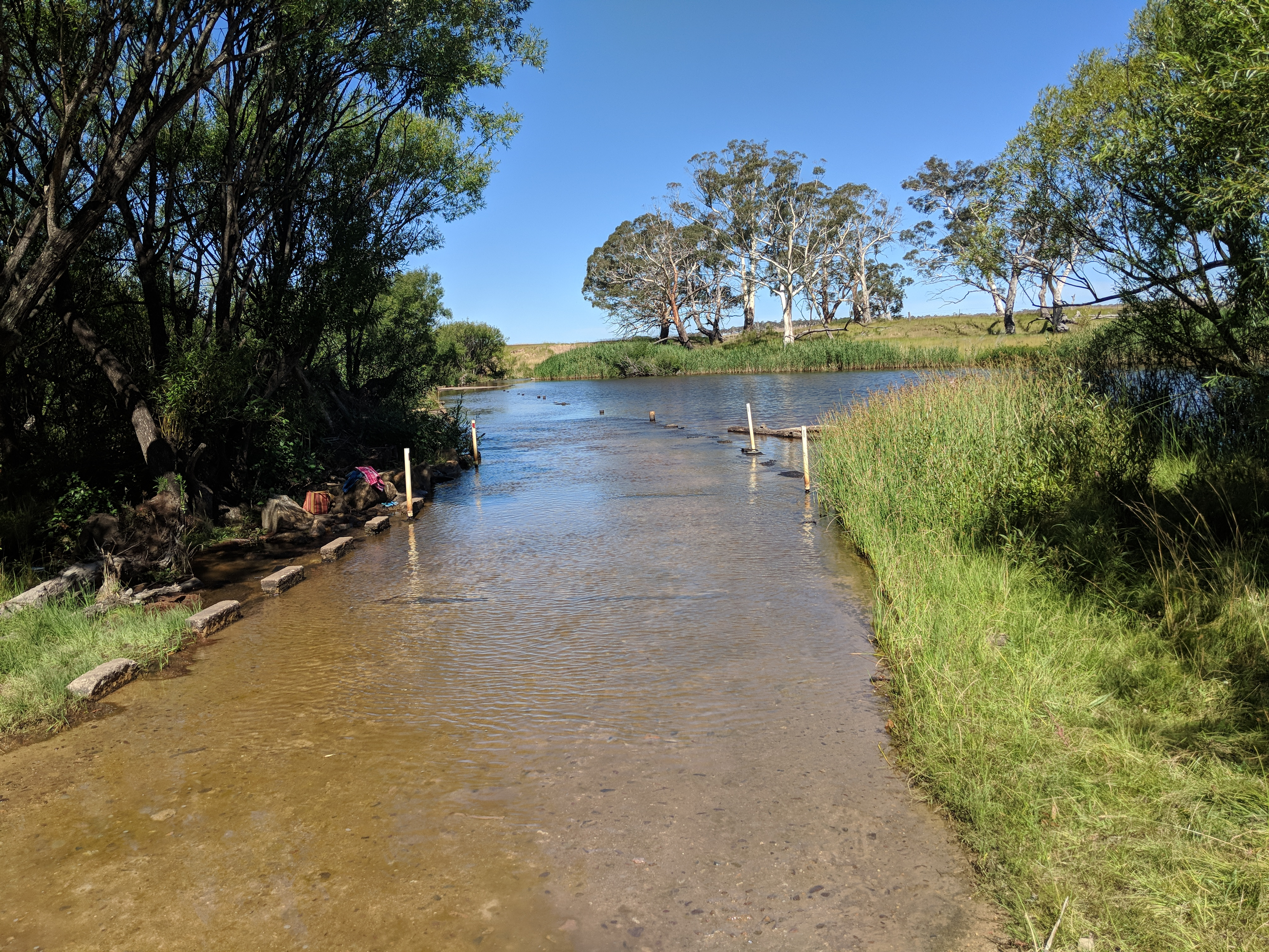 Farringdon Crossing, Farringdon Road, over Shoalhaven River, Farringdon, New South Wales